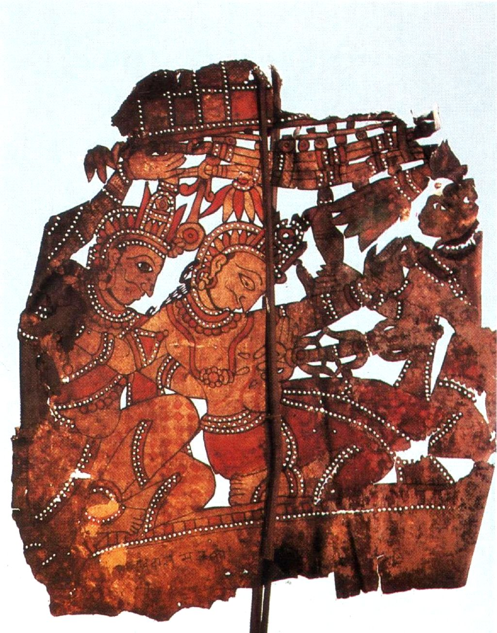 Rama, Lakshmana and Hanuman, shadow puppet from Pinguli village, Sawantwadi, Maharashtra